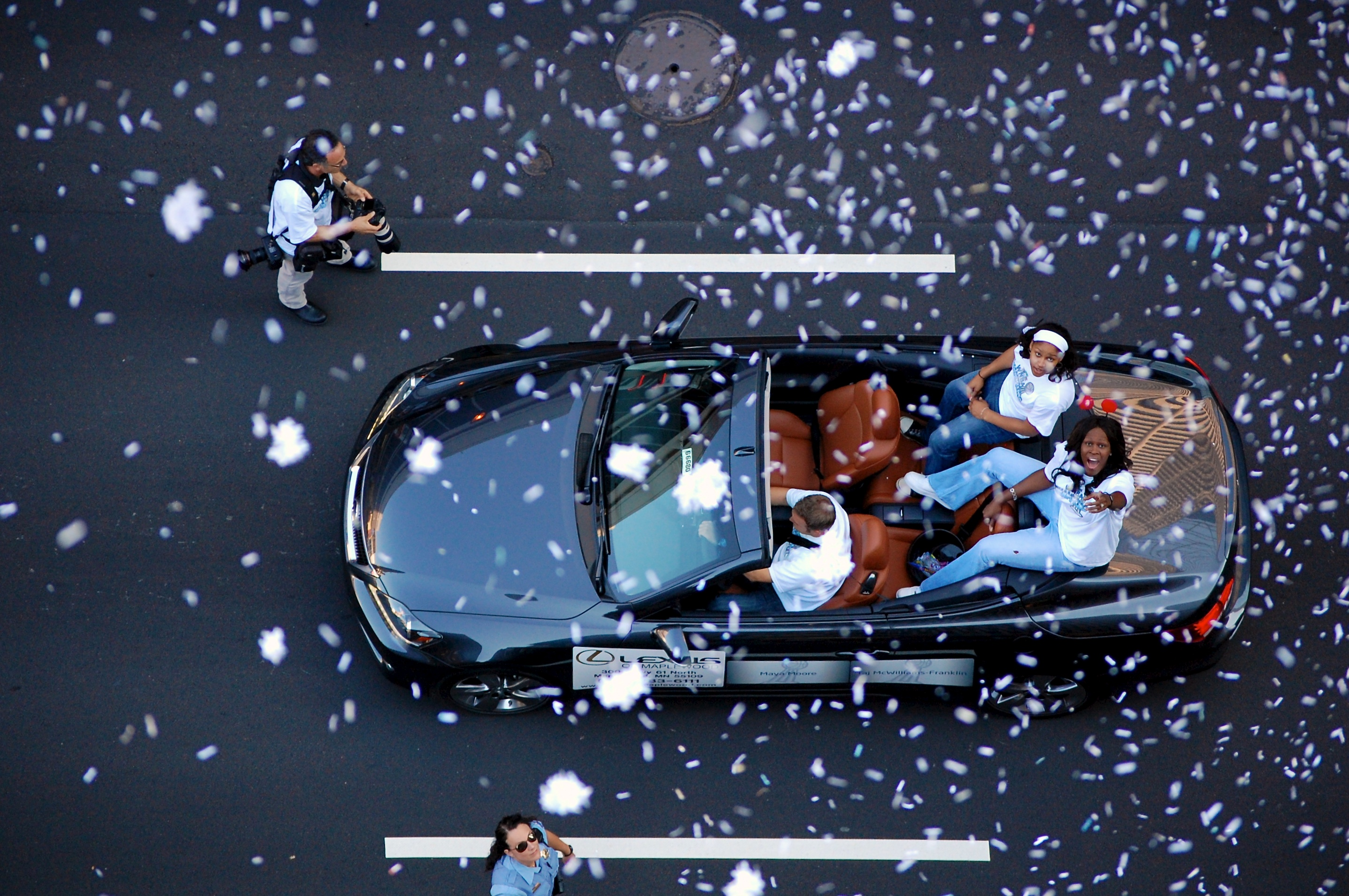 Maya Moore (top) and Taj McWilliams-Franklin (bottom) riding in Minnesota Lynx 2011 WNBA championship parade in Minneapolis